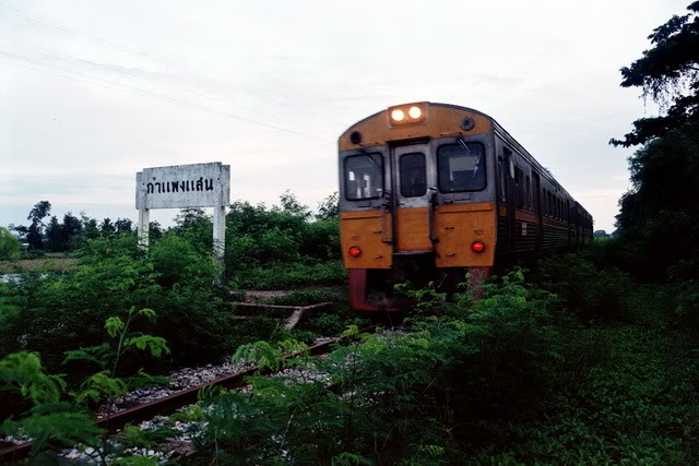 train 356 passing Kamphaeng Saen Station